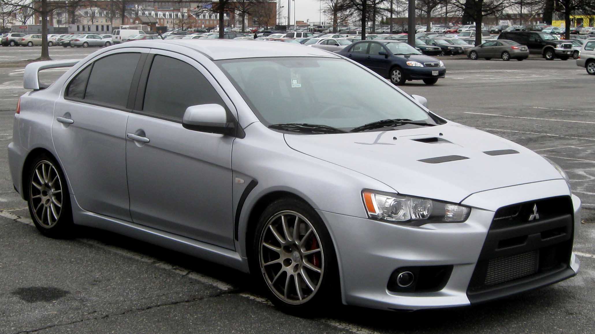 2008-2009 Mitsubishi Lancer Evolution photographed in College Park, Maryland, USA.